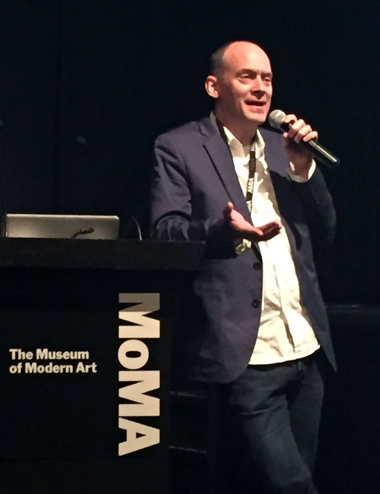 Todd Carter speaking about Linked Media and HyperTED and the 2017 Digital Asset Symposium at MOMA in New York City